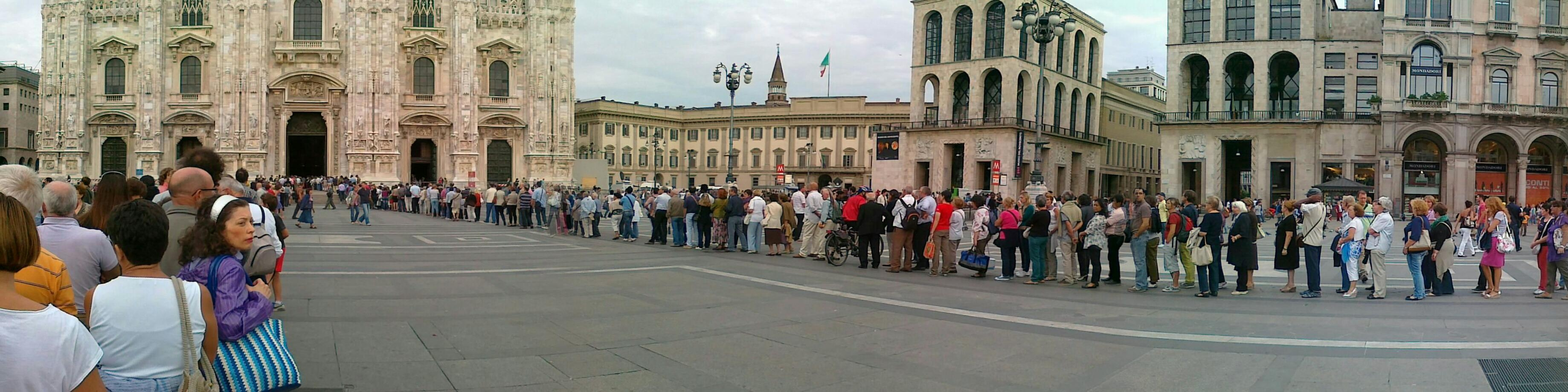 people attending to come in Duomo to participate to cardinal Carlo Maria Martini ceremonies